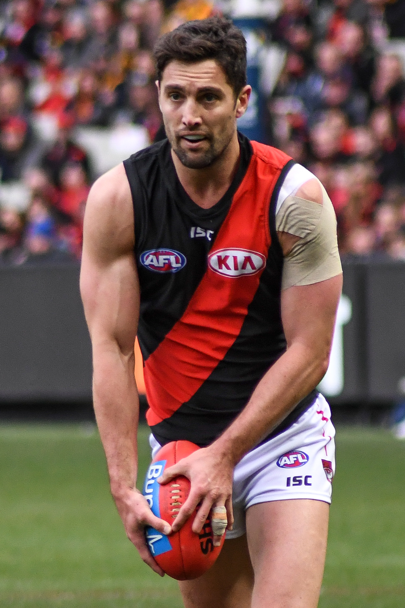 David Myers of Essendon during the 2018 AFL round 20 match between Hawthorn and Essendon at the Melbourne Cricket Ground on Saturday, 4 August 2018 in Melbourne, Victoria.